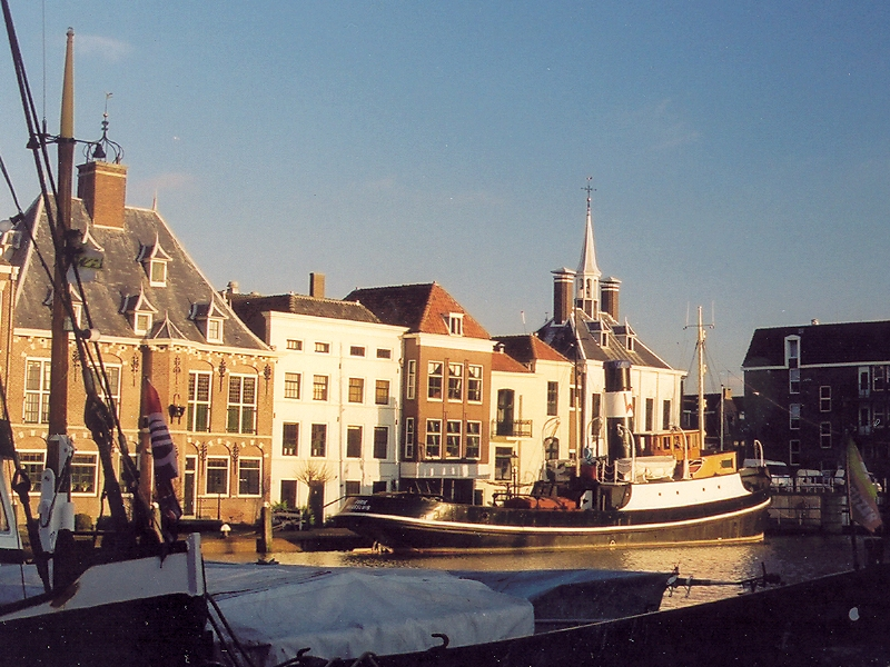 Netherlands: Maassluis - tugboat "Furie".